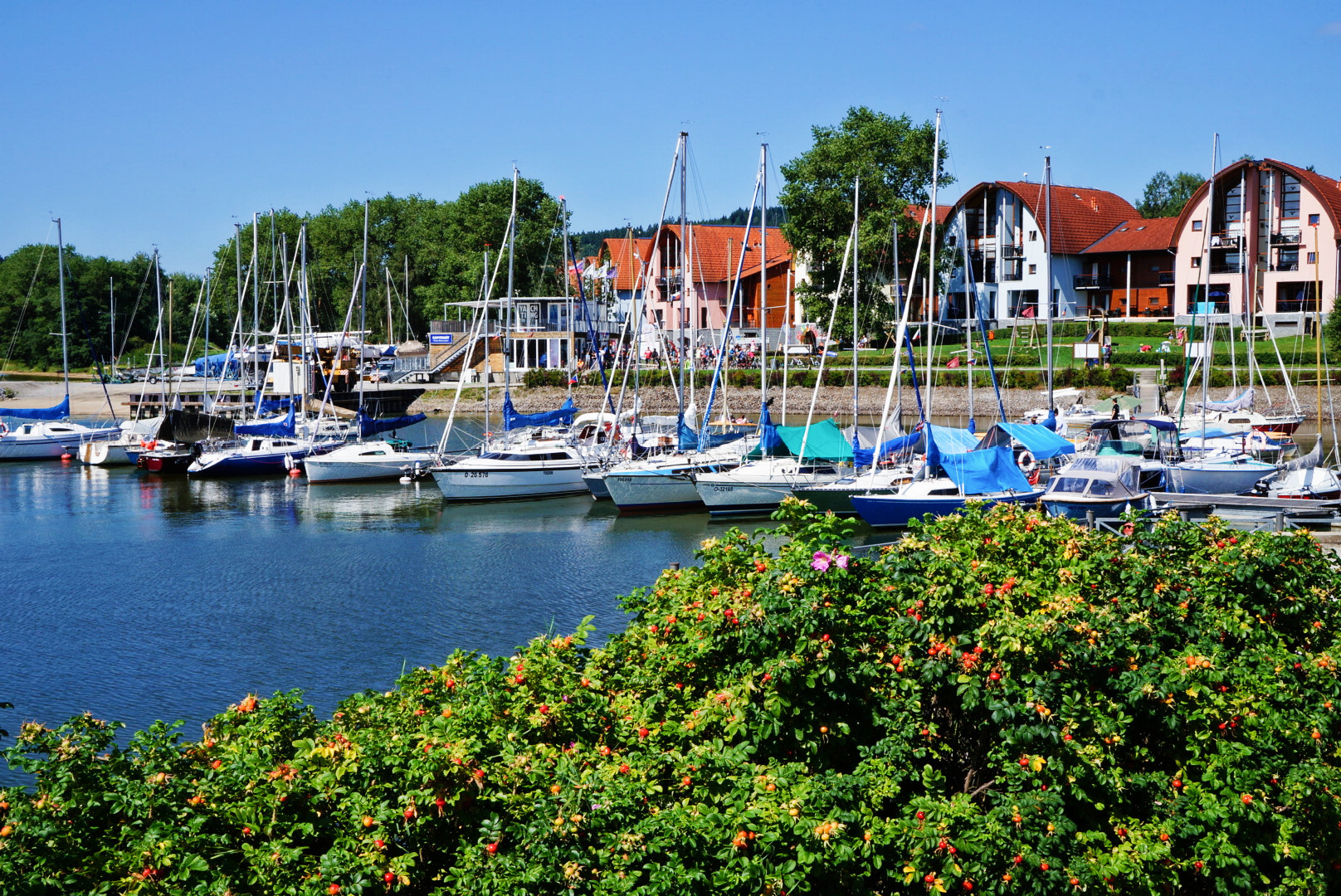 Lipno nad Vltavou is a village located in the Cesky Krumlov District in the South Bohemian Region of the Czech Republic. It is located along the Vltava River next to the Lipno Dam.